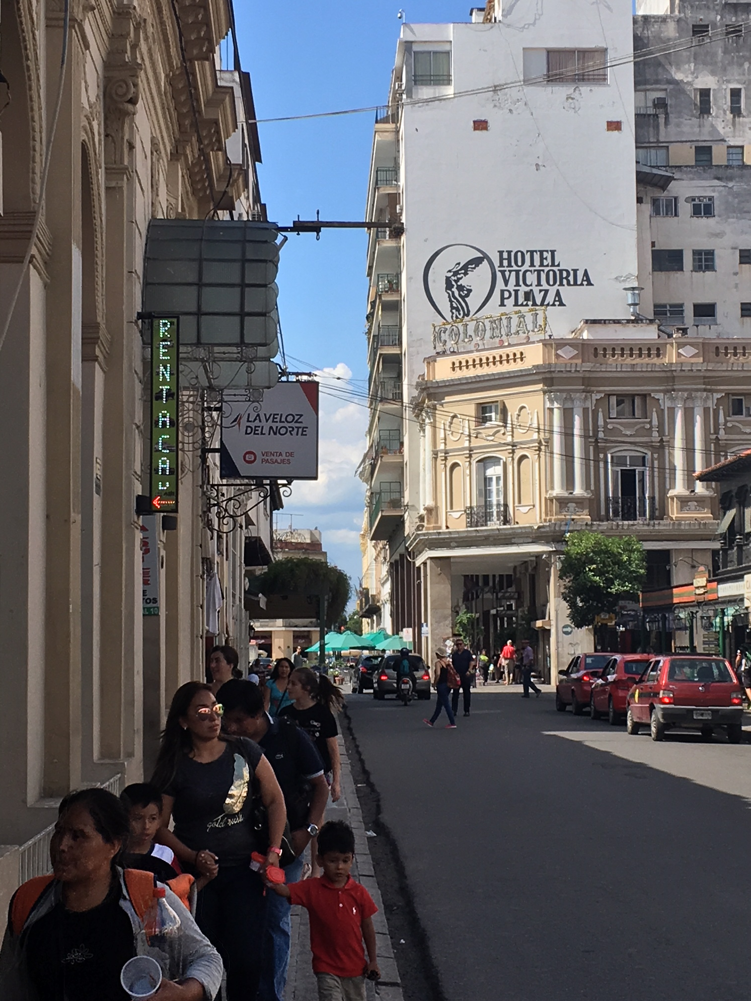 View of Buenos Aires Street, in the city of Salta, Argentina.